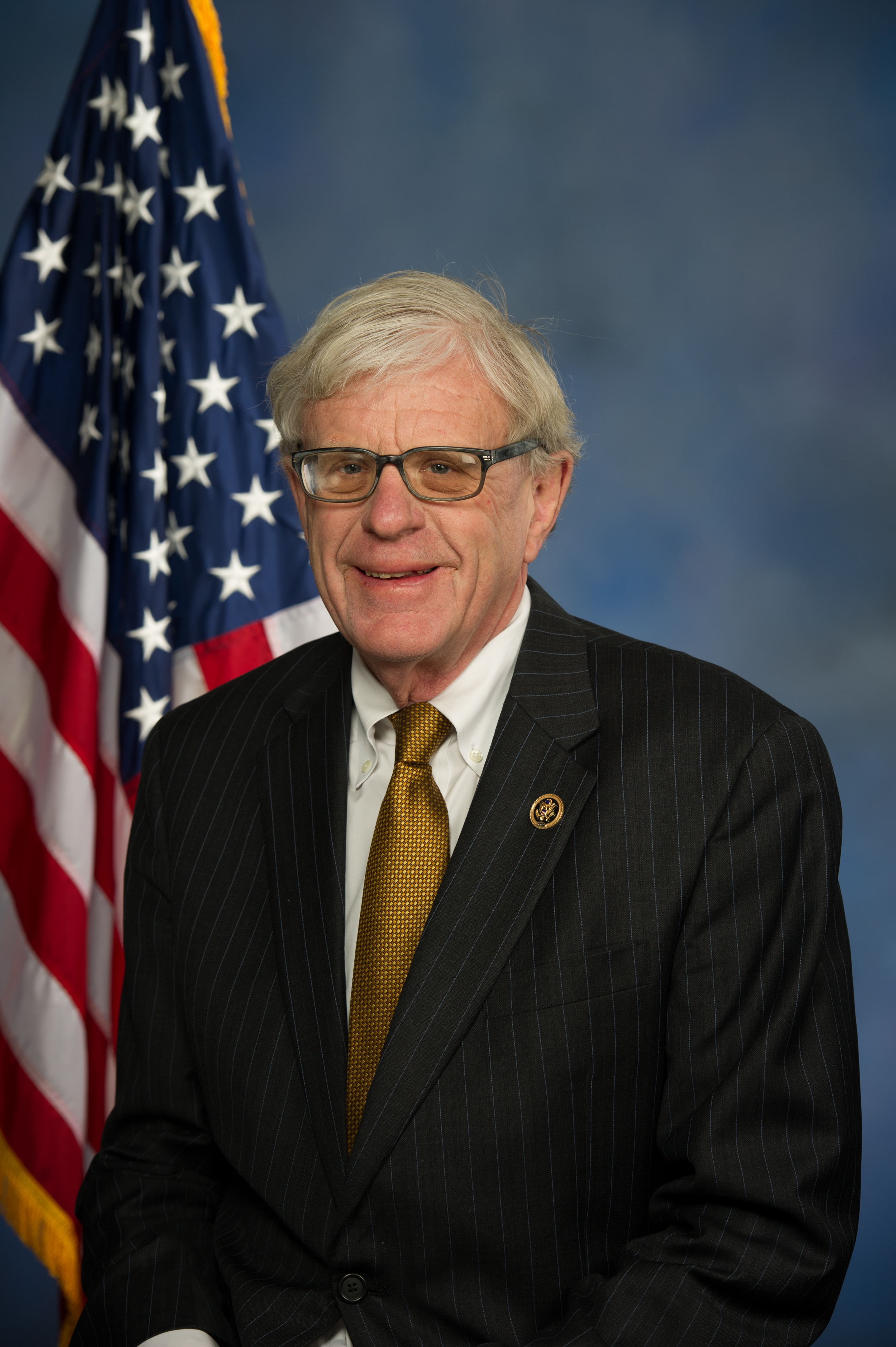 U.S. Congressman Brad Ashford